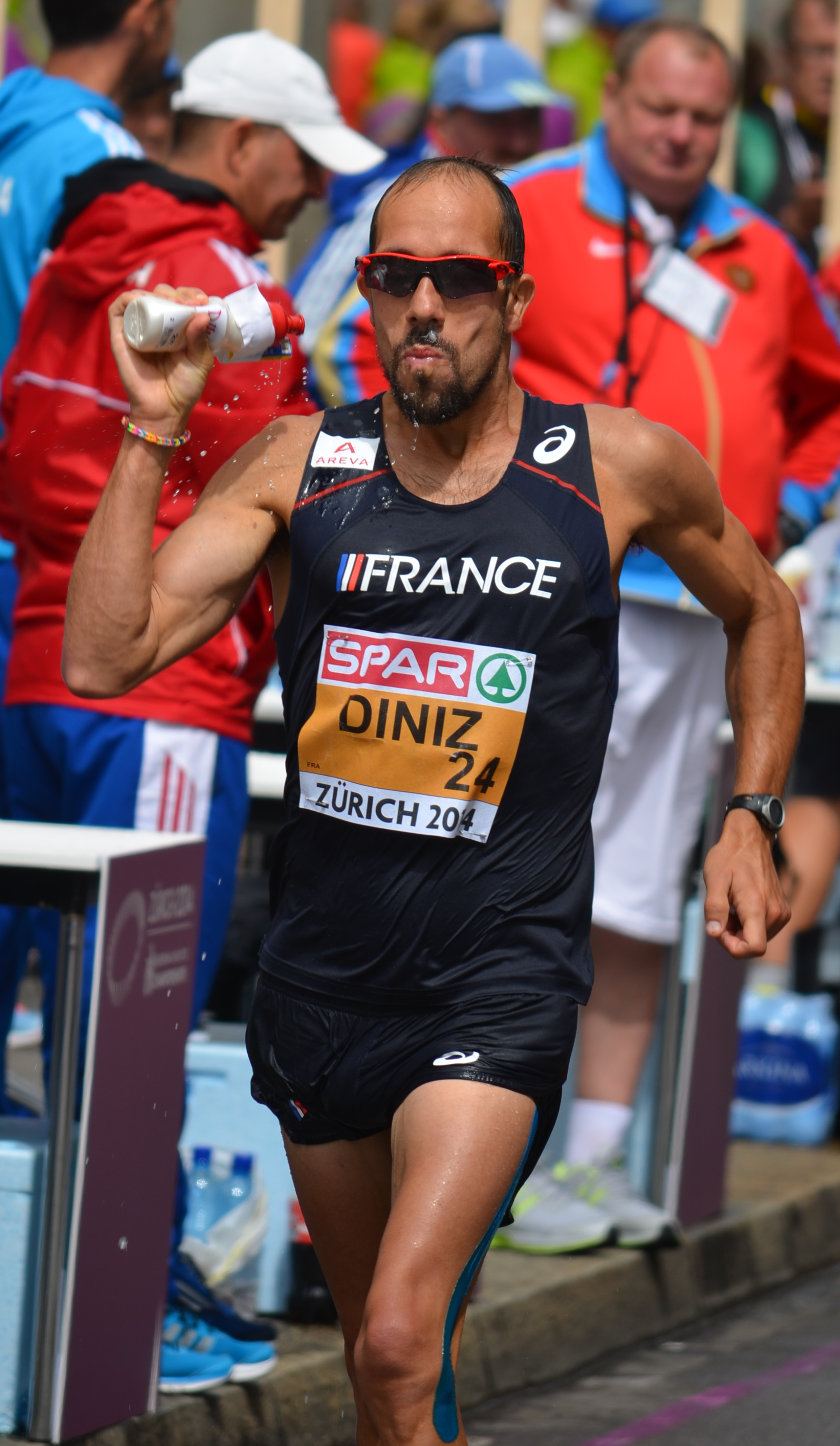 European Athletics Championships Zürich 2014